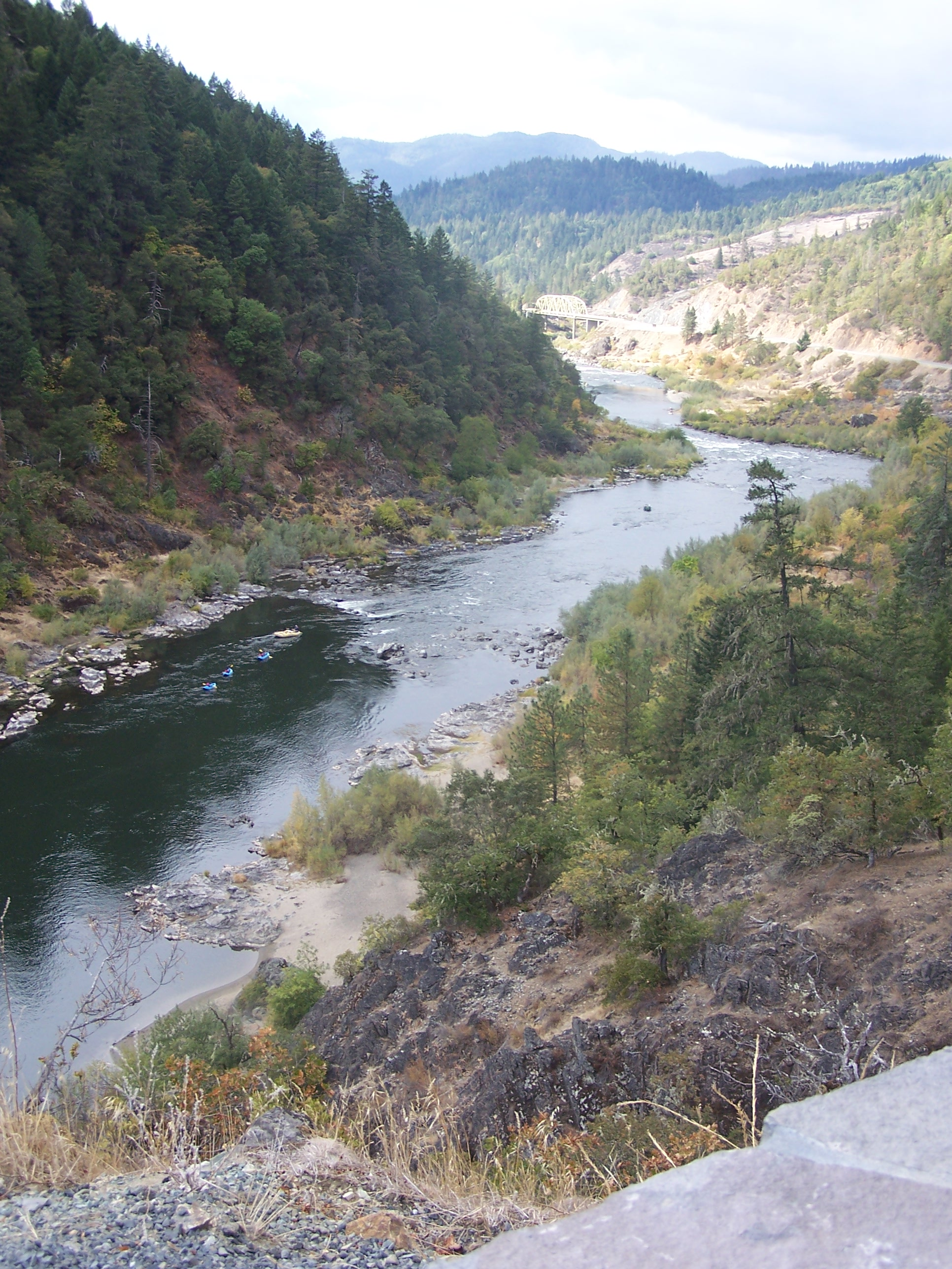 The Rogue River from near Indian Mary Park.